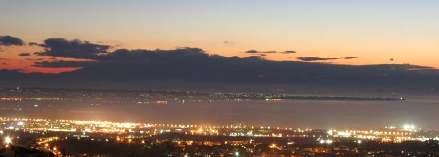 Thessaloniki view at night, looking south-east towards the Thermaic Gulf.